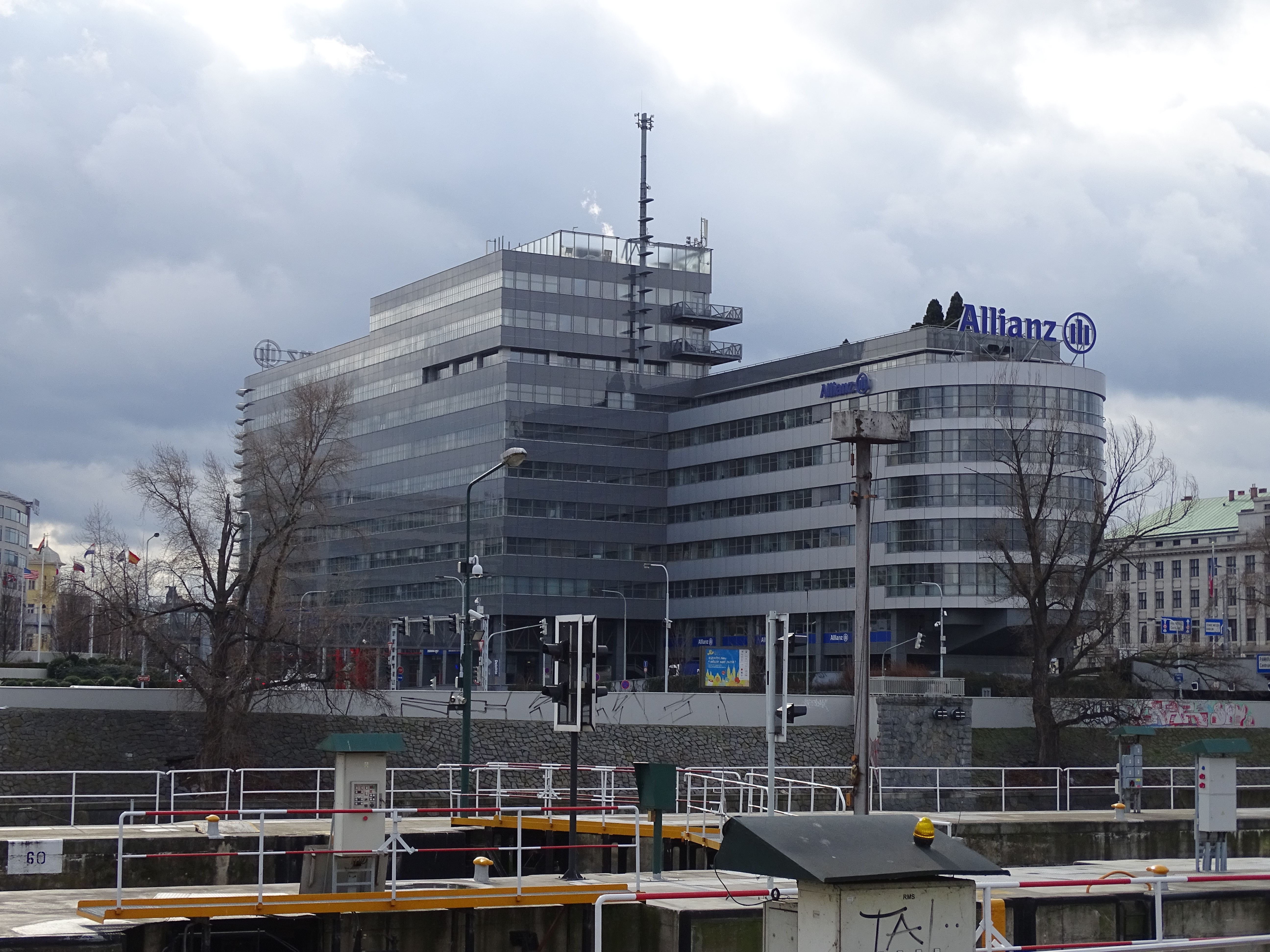 Prague-Holešovice and Karlín, Czech Republic. Diamond Point, seen from Štvanice island.